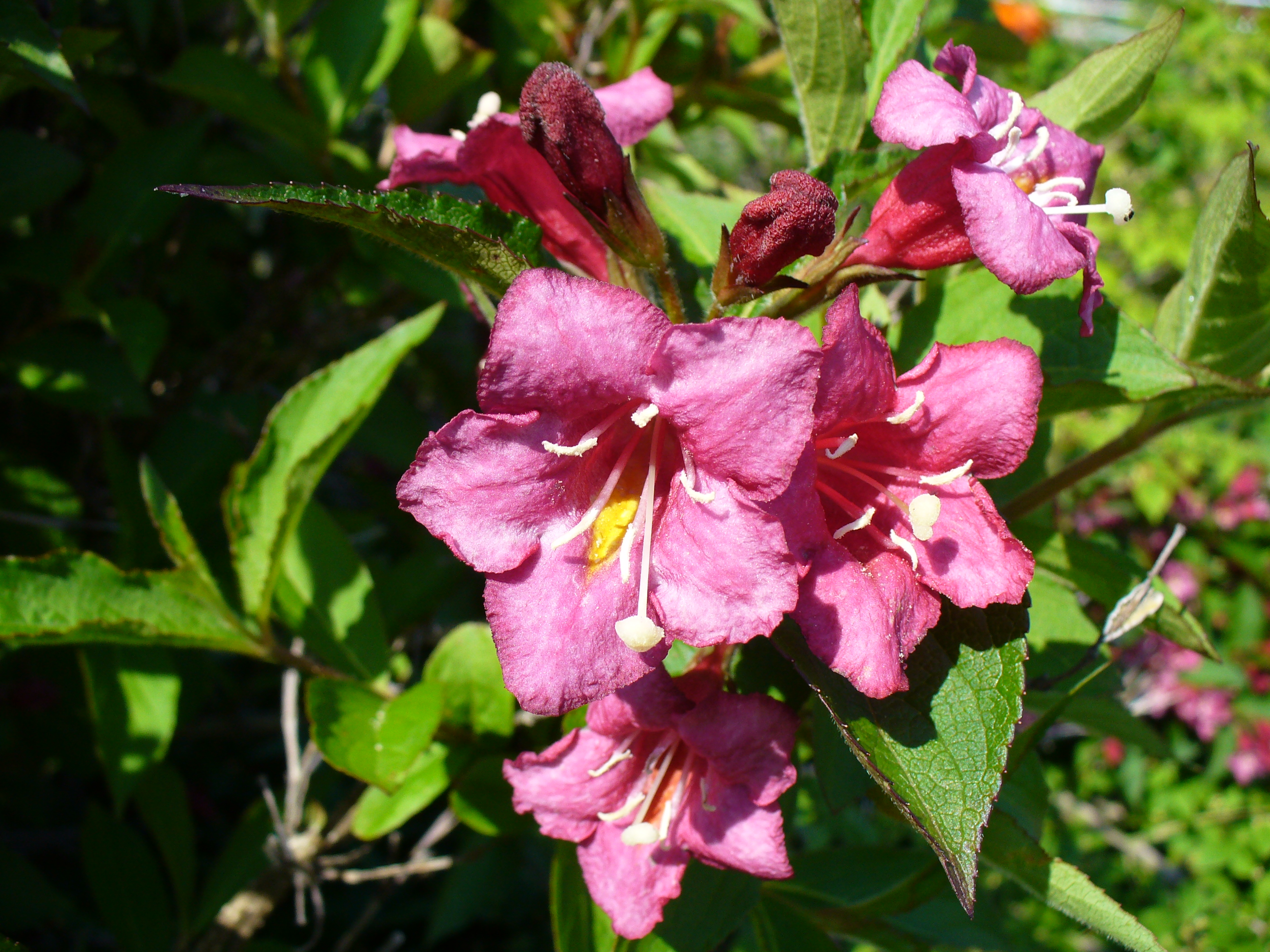 I am the originator of this photo. I hold the copyright. I release it to the public domain. This photo depicts flowers.